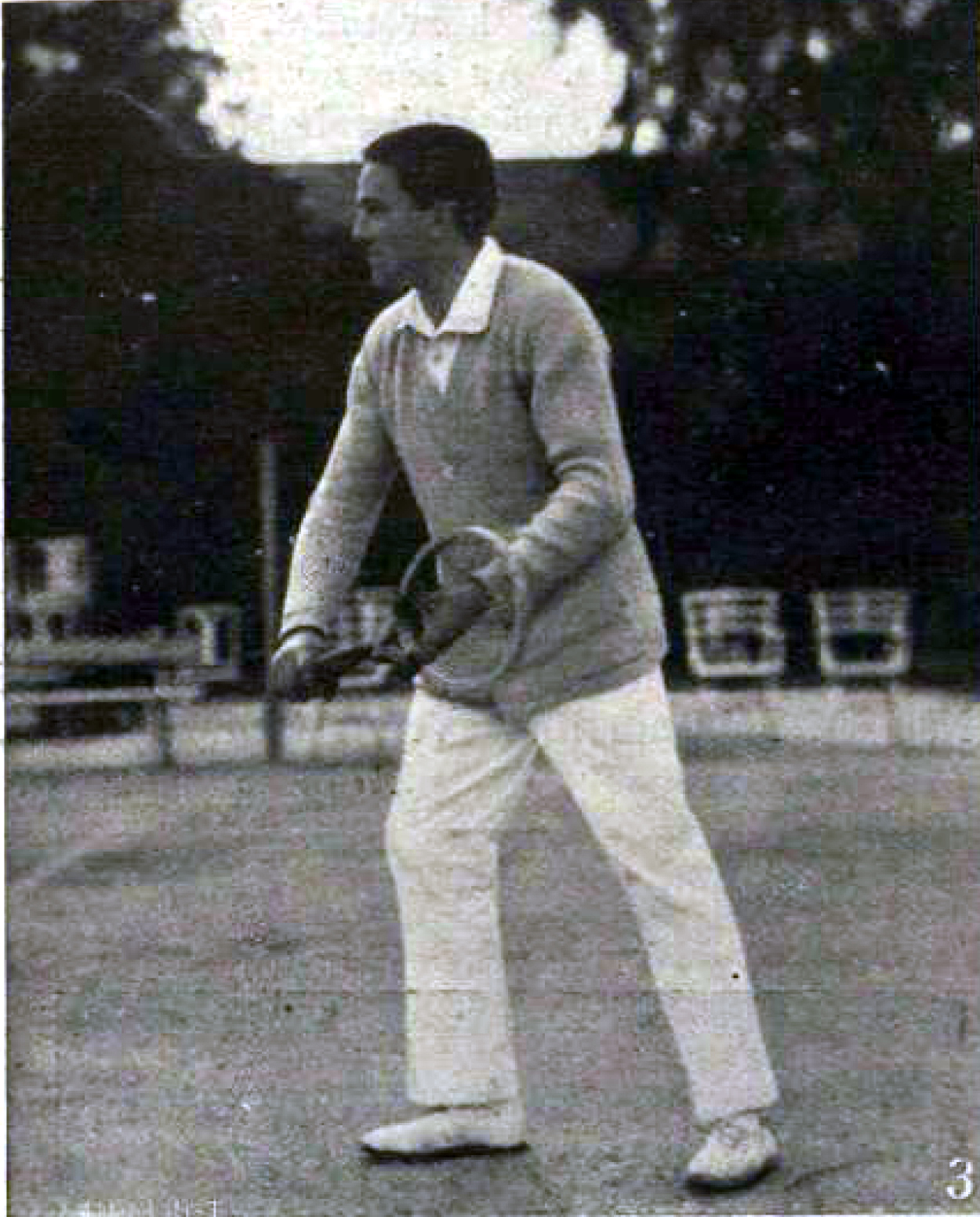 Hungarian tennis player Béla Von Kehrling playing in Budapest, Hungary in 1914. Published in the weekly periodical newspaper called Vasarnapi Ujság by the printing press inc. Franklin Irodalmi és Nyomdai Rt. in 1914.